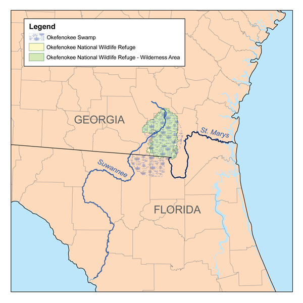 This is a map of the area around Okefenokee Swamp. I, Karl Musser, created it based on USGS data.